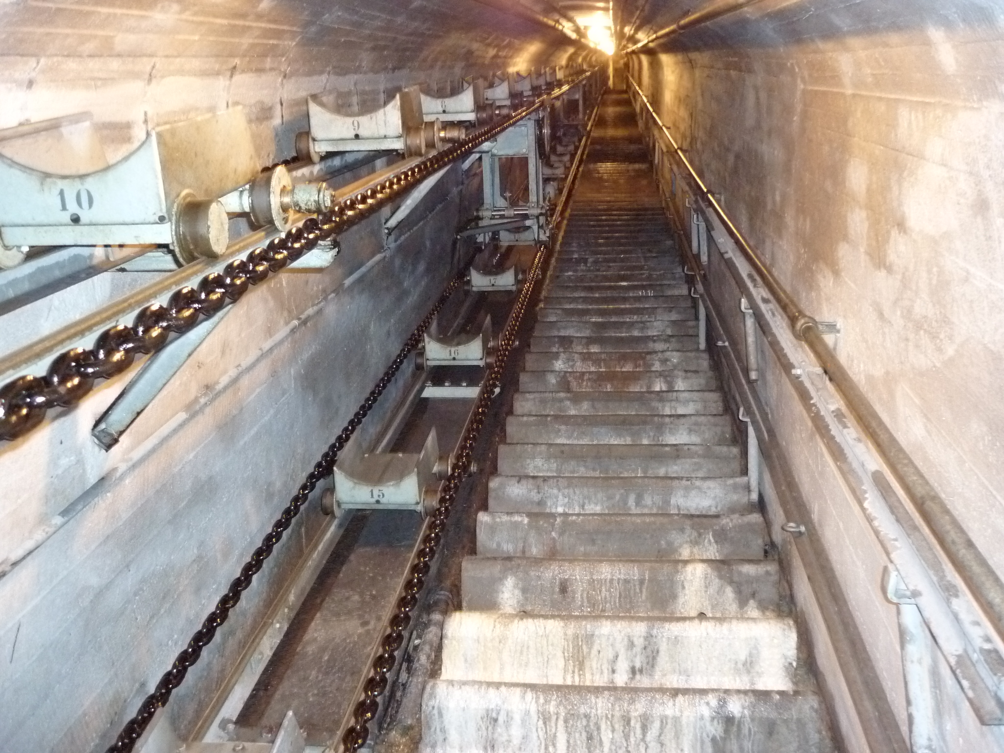 Fort Furkels, Pfäfers SG, Switzerland